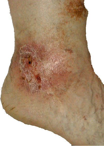 Picture of a real Ulcus cruris venosum